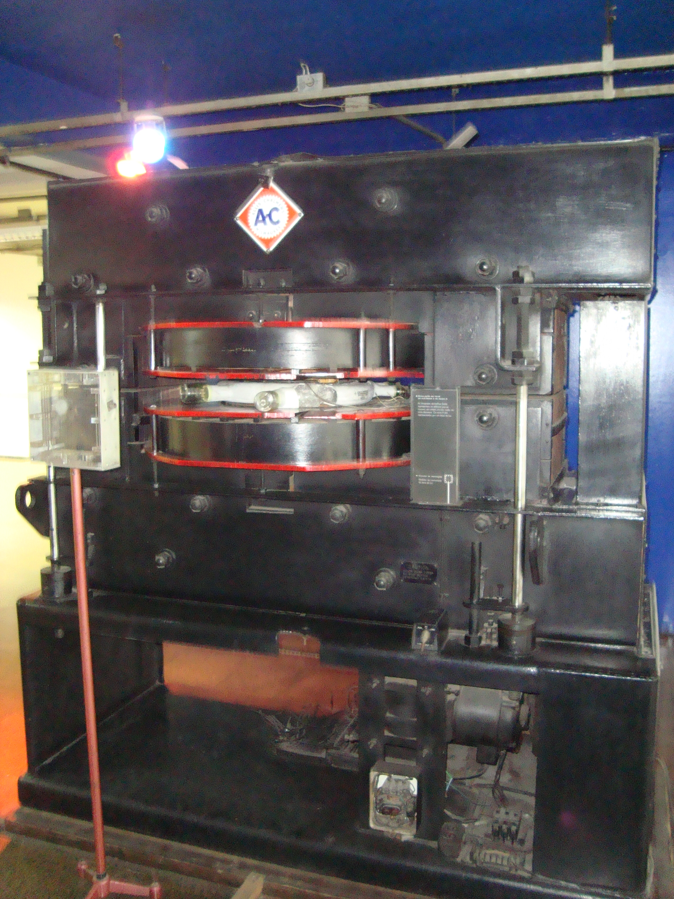 Old betatron of Sao Paulo University